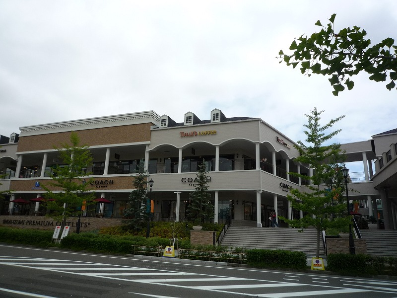 Sendai Izumi Premium Outlet